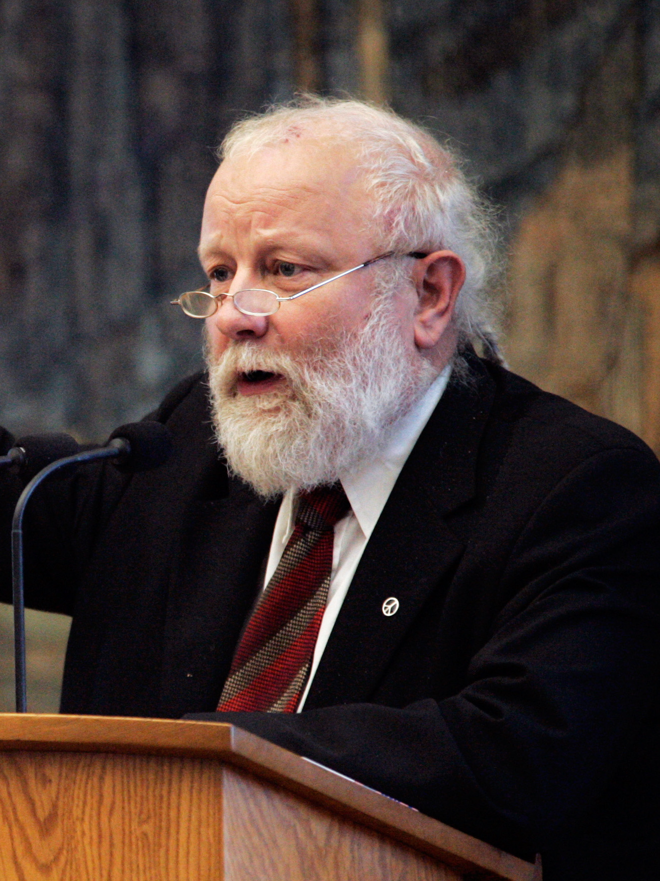 Ilkka Taipale, Finnish Politician (Social Democratic Party of Finland) in Copenhagen